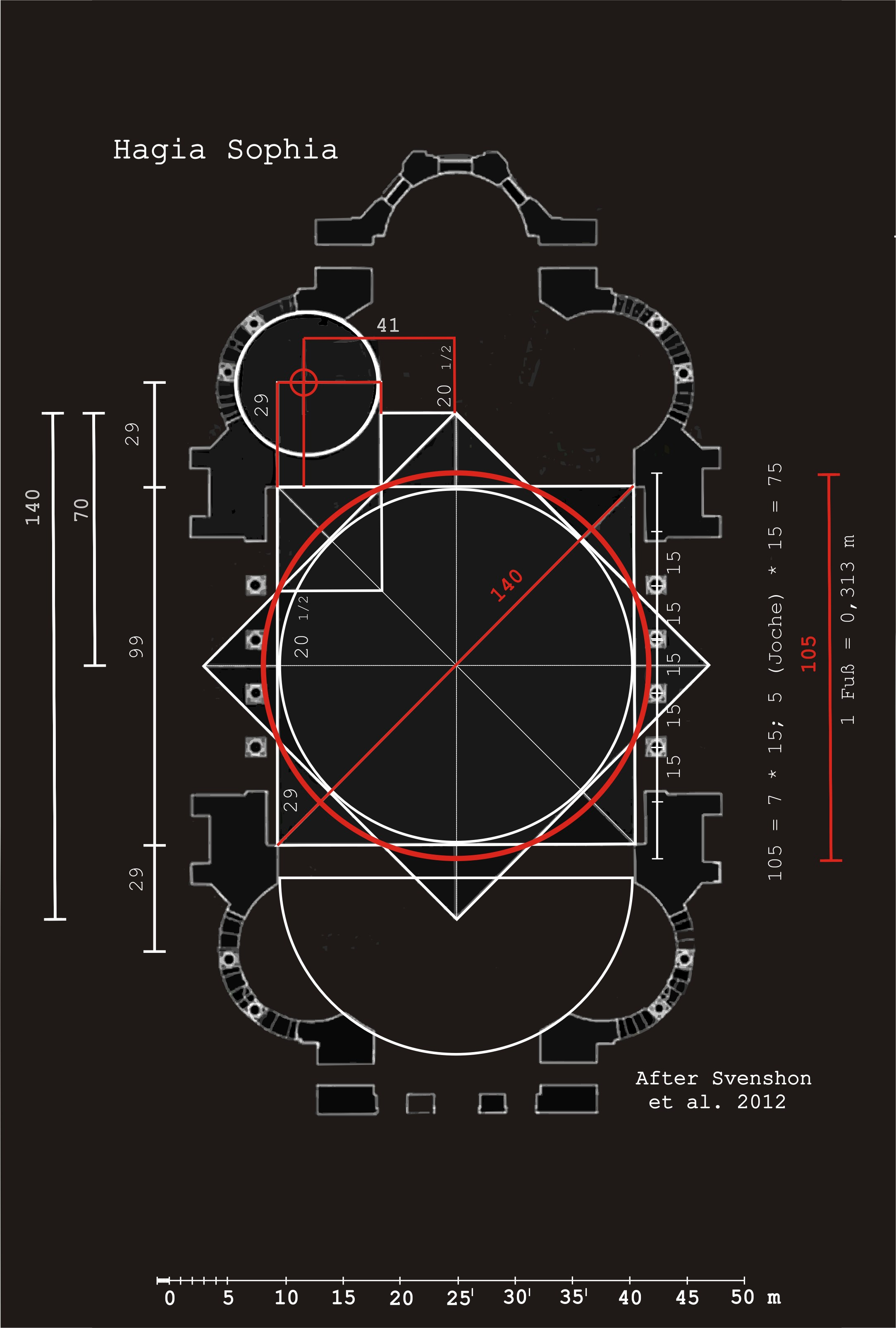 Hagia sophia mathematische Konstruktion